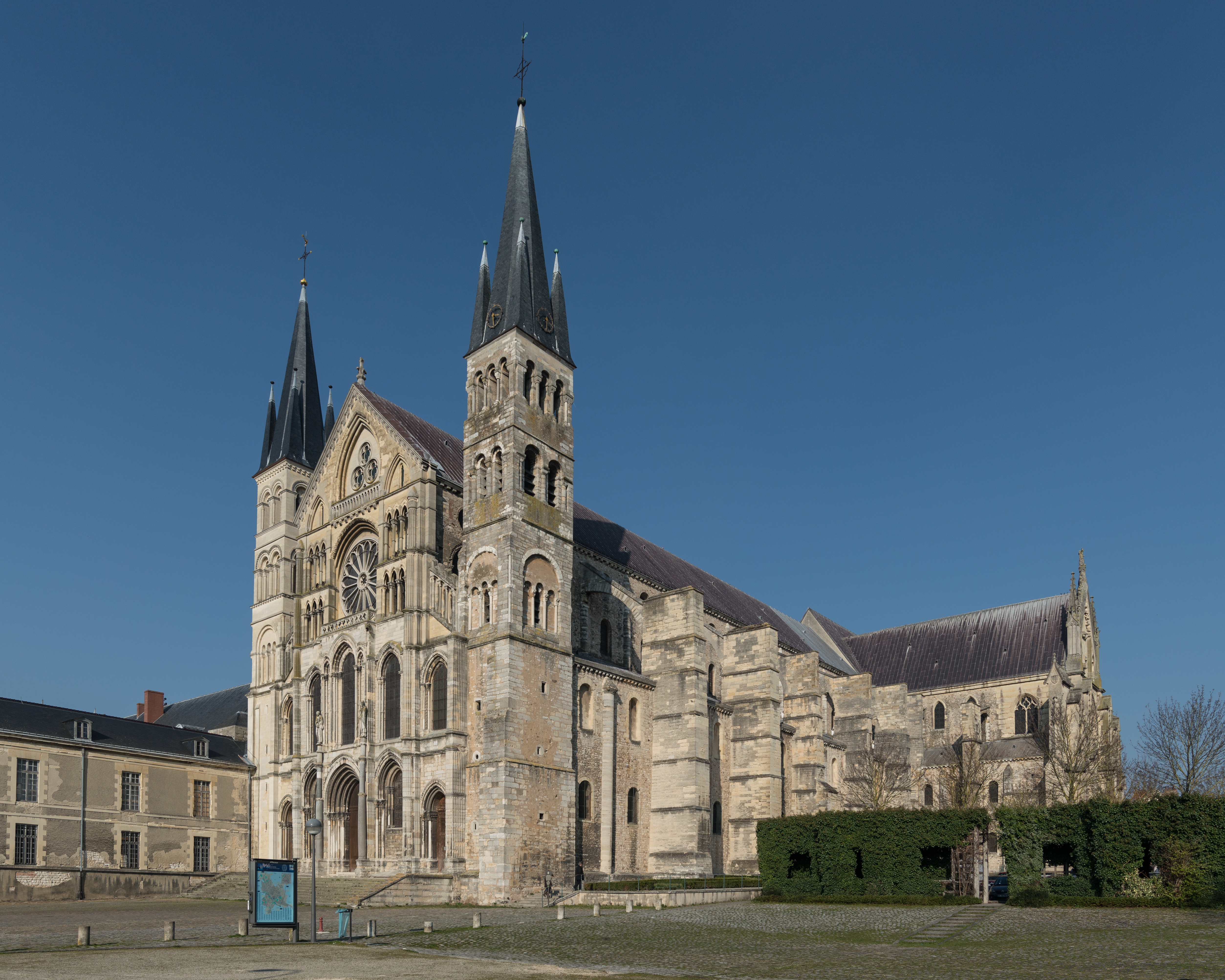 A southwest view of the Basilique Saint-Remi de Reims